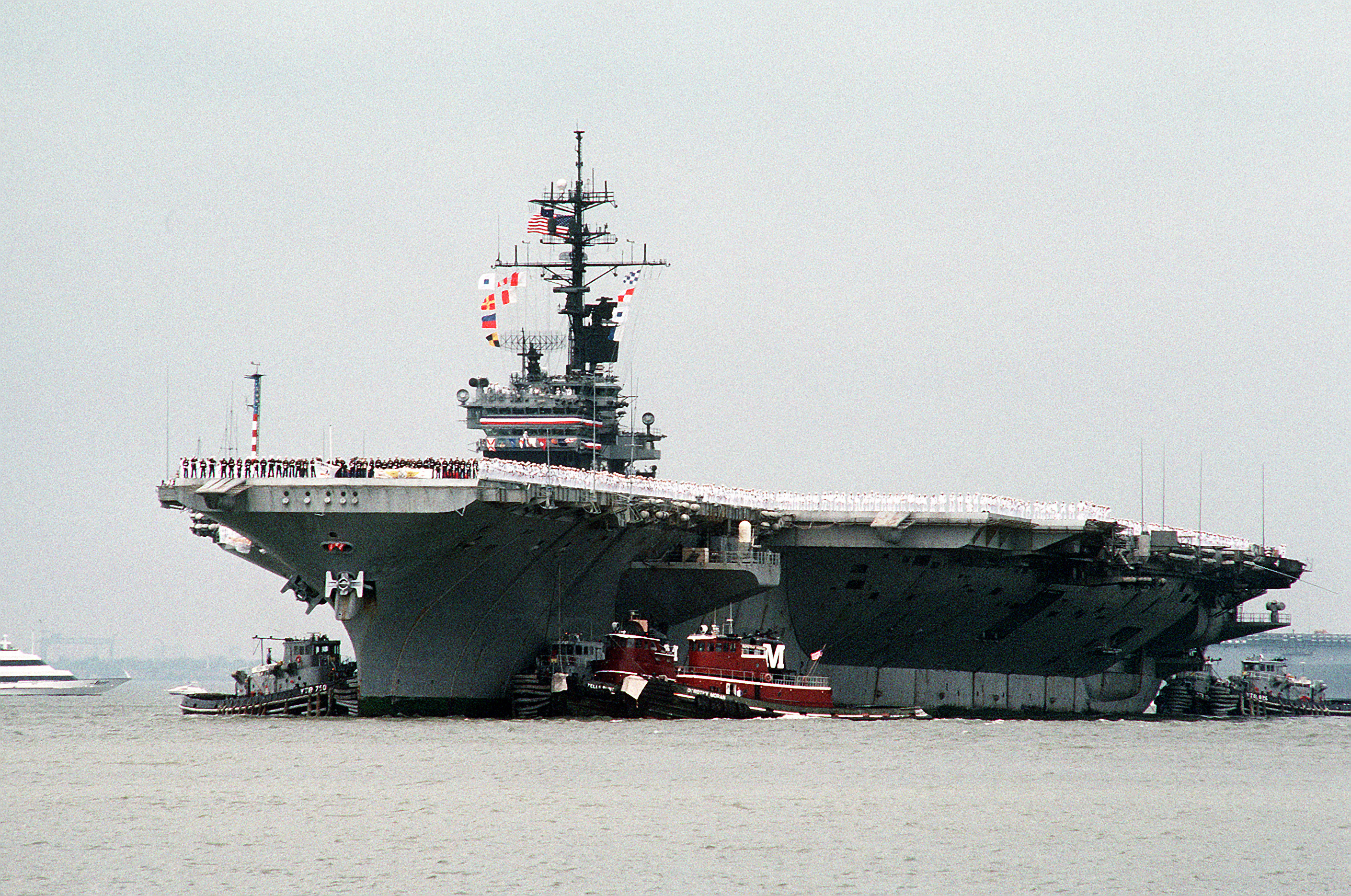 Operation / Series: DESERT STORM - Crew members man the rails aboard the aircraft carrier USS AMERICA (CV-66) as the large harbor tug NATICK (YTB-760) and other tugs maneuver the ship toward a berth. The AMERICA has just returned to Norfolk following deployment in the Persian Gulf area during Operation Desert Storm. F/A-18 Hornet aircraft, flown by the Navy-Marine Corps flight demonstration team the Blue Angels, are conducting a flyover in the background. Location: NAVAL AIR STATION, NORFOLK, VIRGINIA (VA) UNITED STATES OF AMERICA (USA)